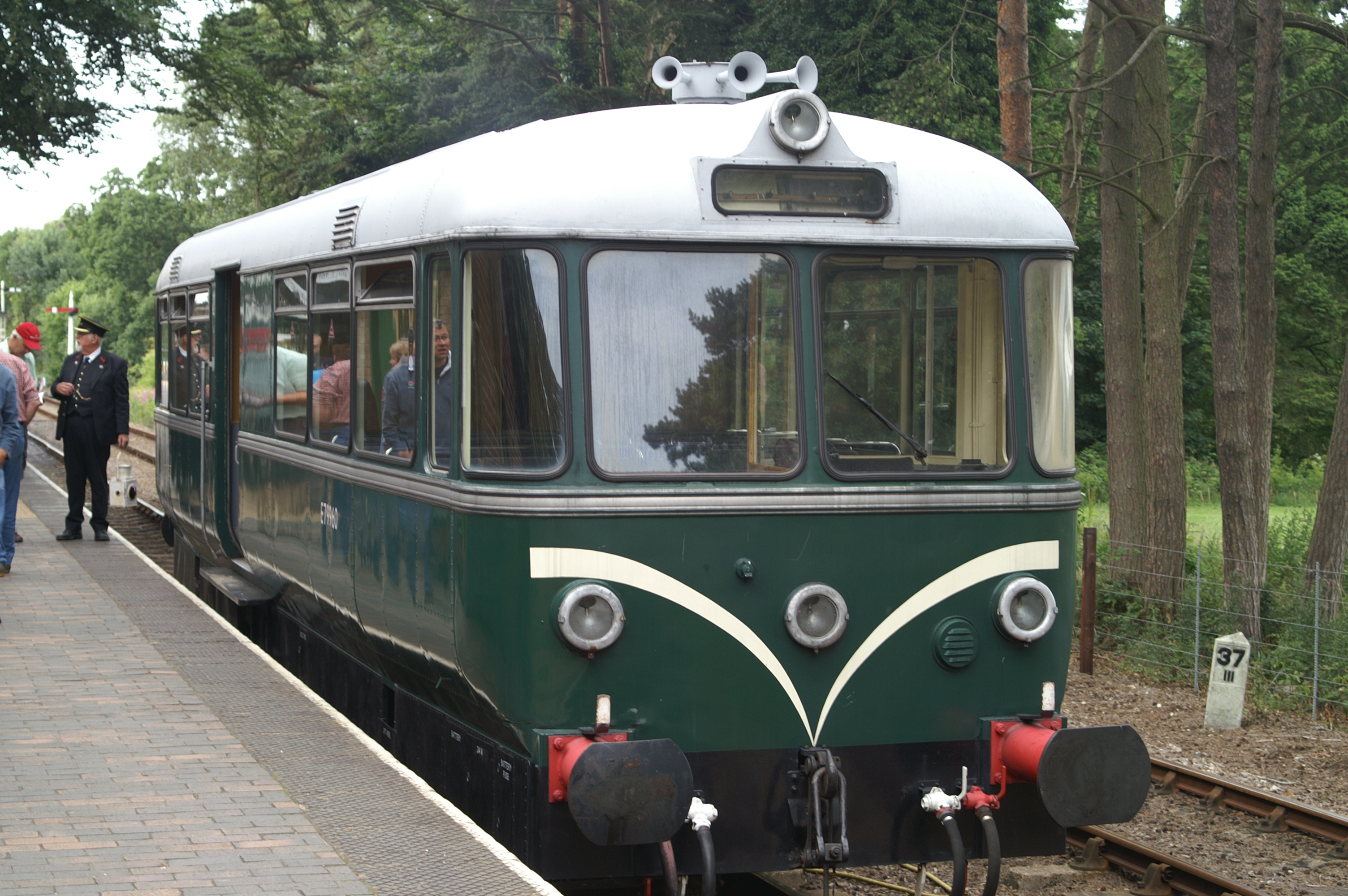 Photo June 2011